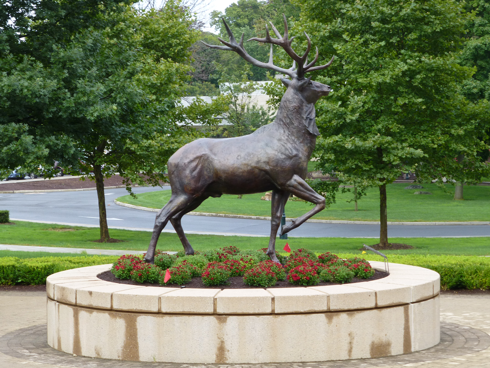 Stag Statue at Fairfield University in Fairfield, Connecticut, USA.